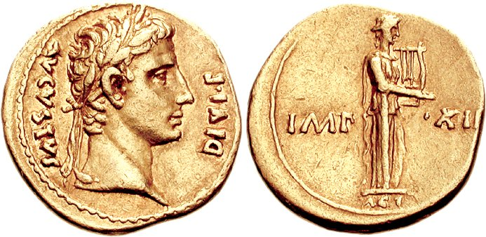 Augustus. 27 BC-AD 14. AV Aureus (7.83 g, 6h). Lugdunum (Lyon) mint. 2nd emission, 10 BC. Laureate head right IMP-•XII across field; ACT in exergue, Apollo Citharoedus standing right, holding lyre. RIC I 192a; Lyon 59; Calicó 229b.